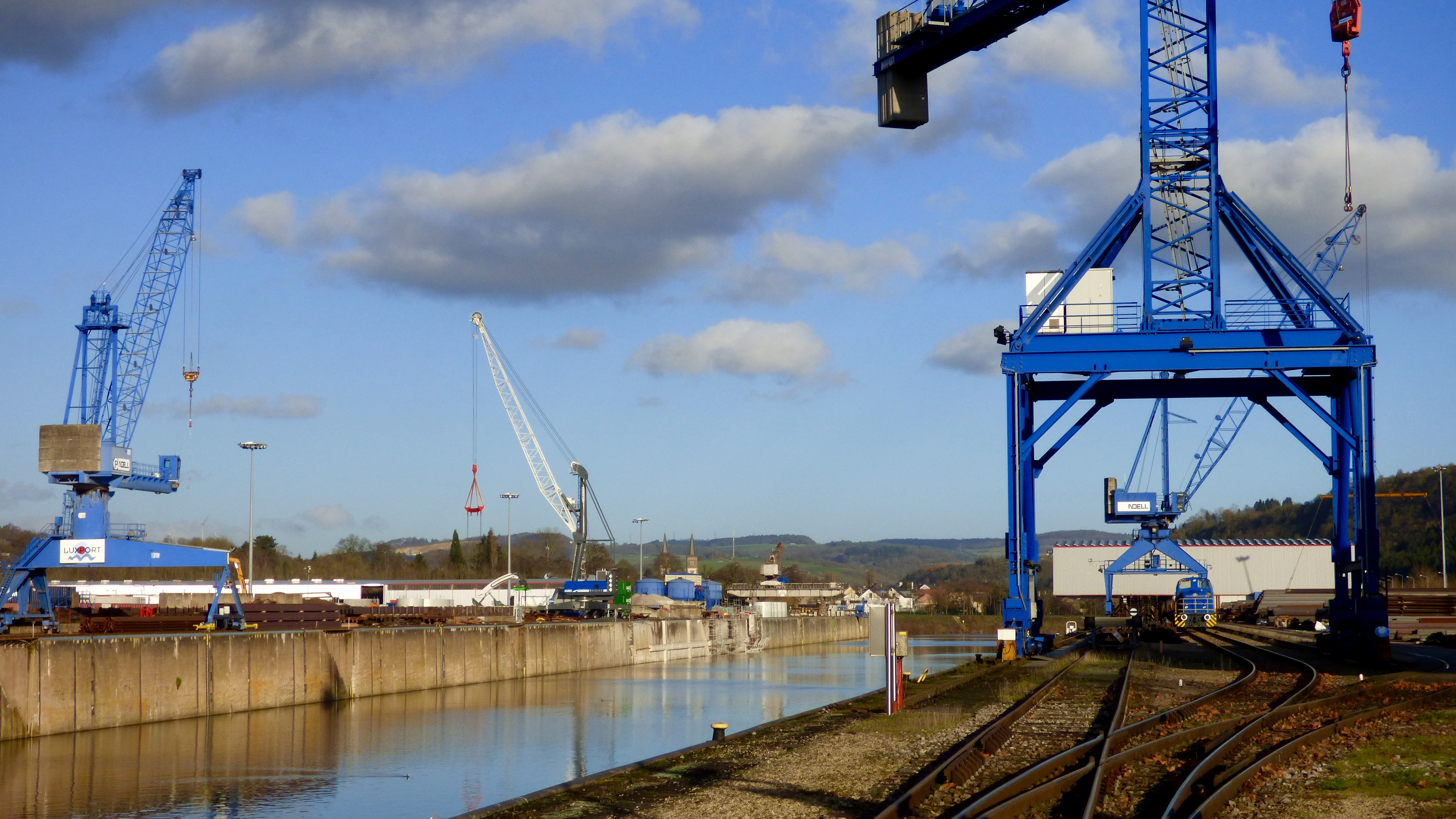 Cargo Port in MERTERT, river Moselle, LU